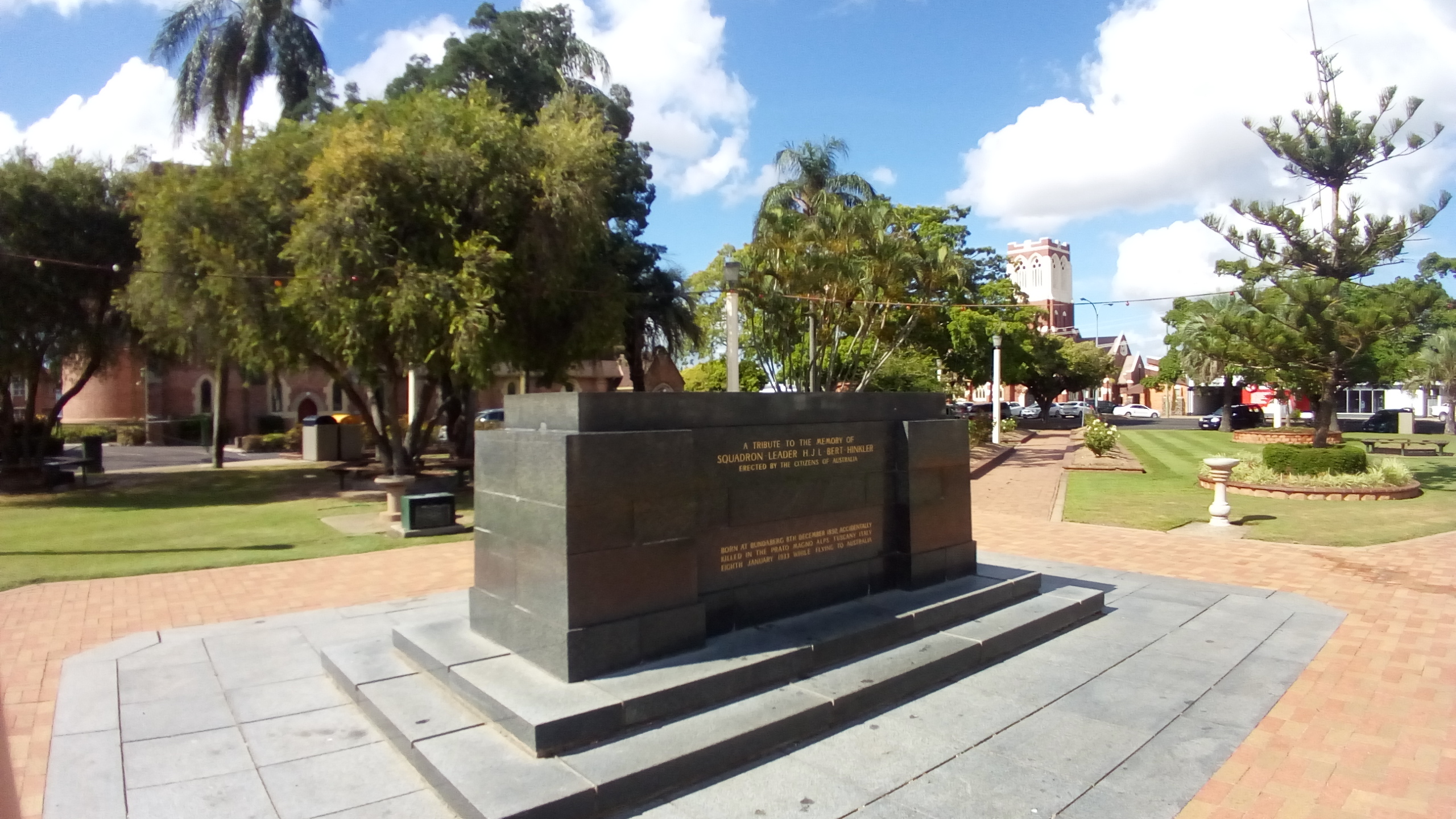 the memorial to hinkler located in buss park central bundaberg